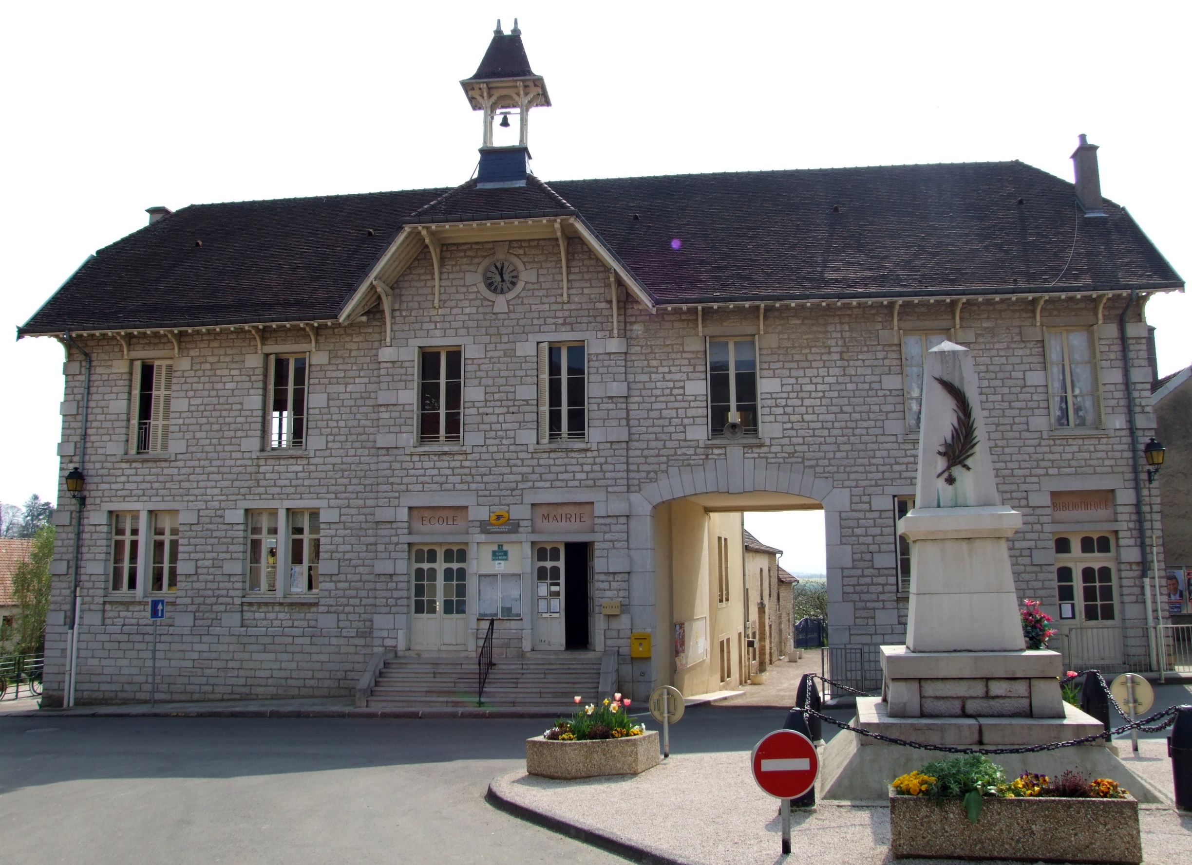 Lantenay Town Hall, Burgundy, FRANCE